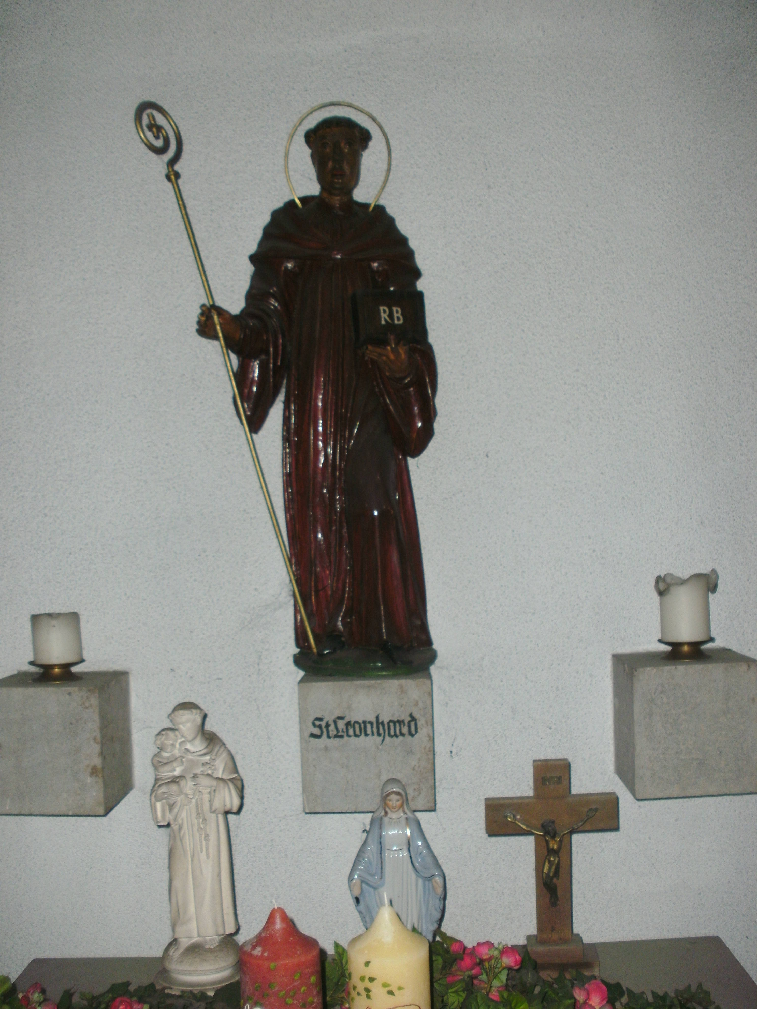 Statue of Saint Leonard in the Reiterleskapelle, Waldstetten (Ostalbkreis), Germany